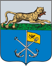 Okhotsk (Khabarovsk krai), coat of arms (1790)